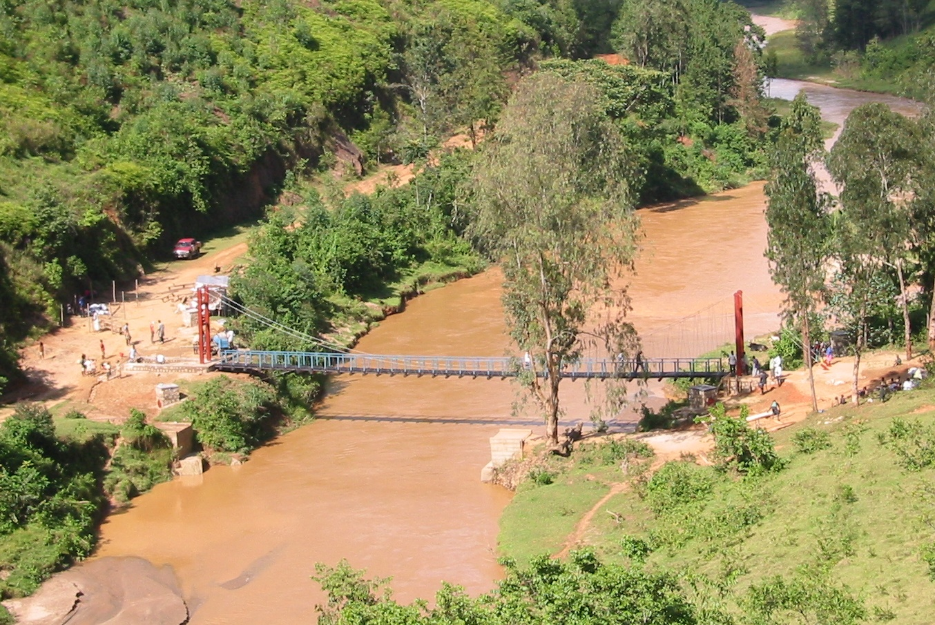 Suspended bridge over the Nyabarongo, Ruanda